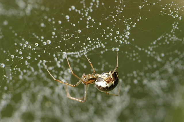 female Linyphia hortensis from Commanster, Belgian High Ardennes .